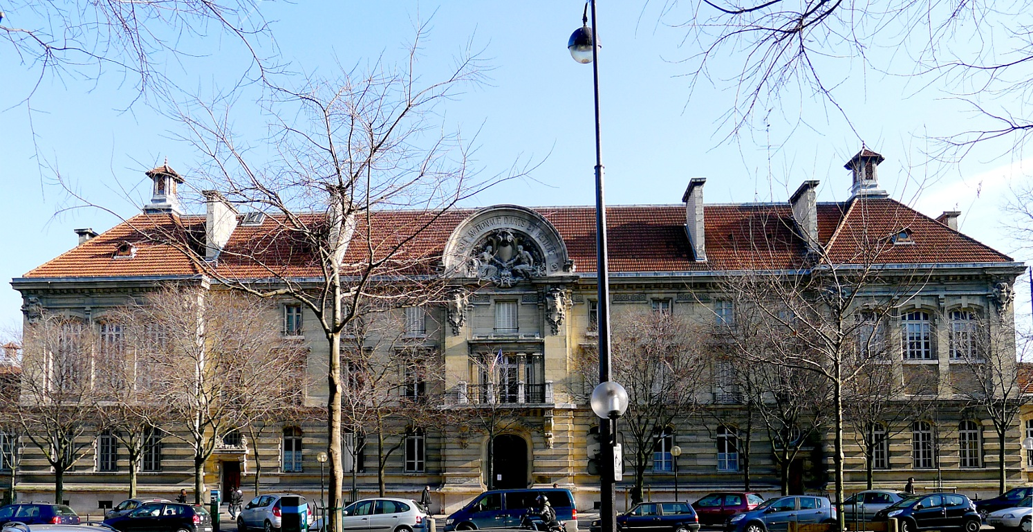 Hopital boulevard - Paris